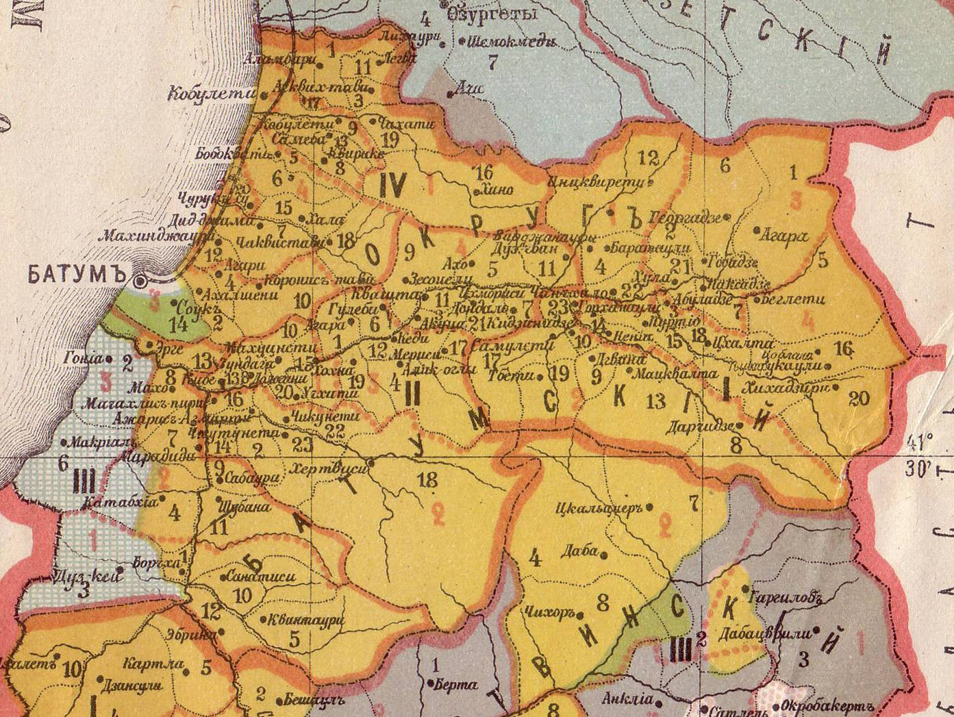 Ethnographic map of the Kutais Governorate